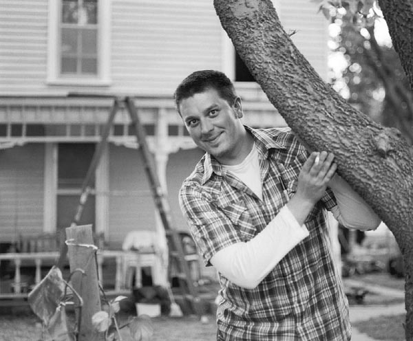 Photo of Steve Balderson. We own all rights to this image and anyone is free to use it.